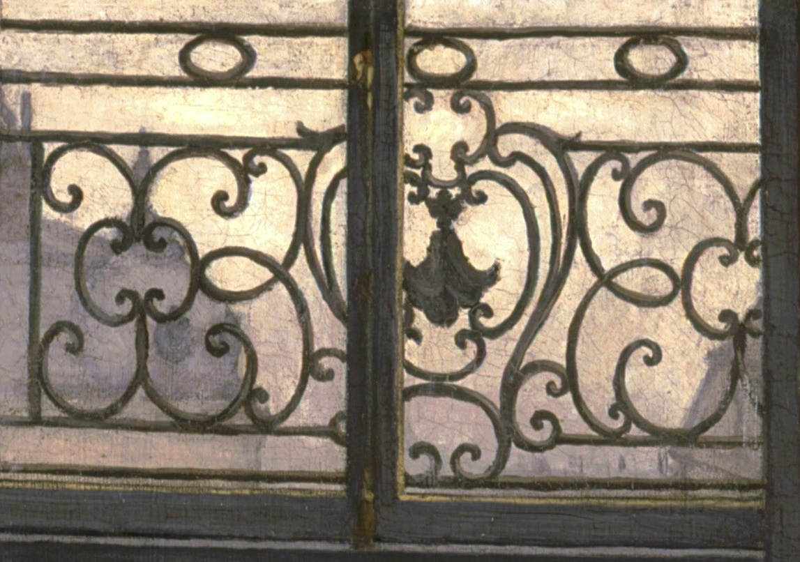 Detail of the grill in the above painting